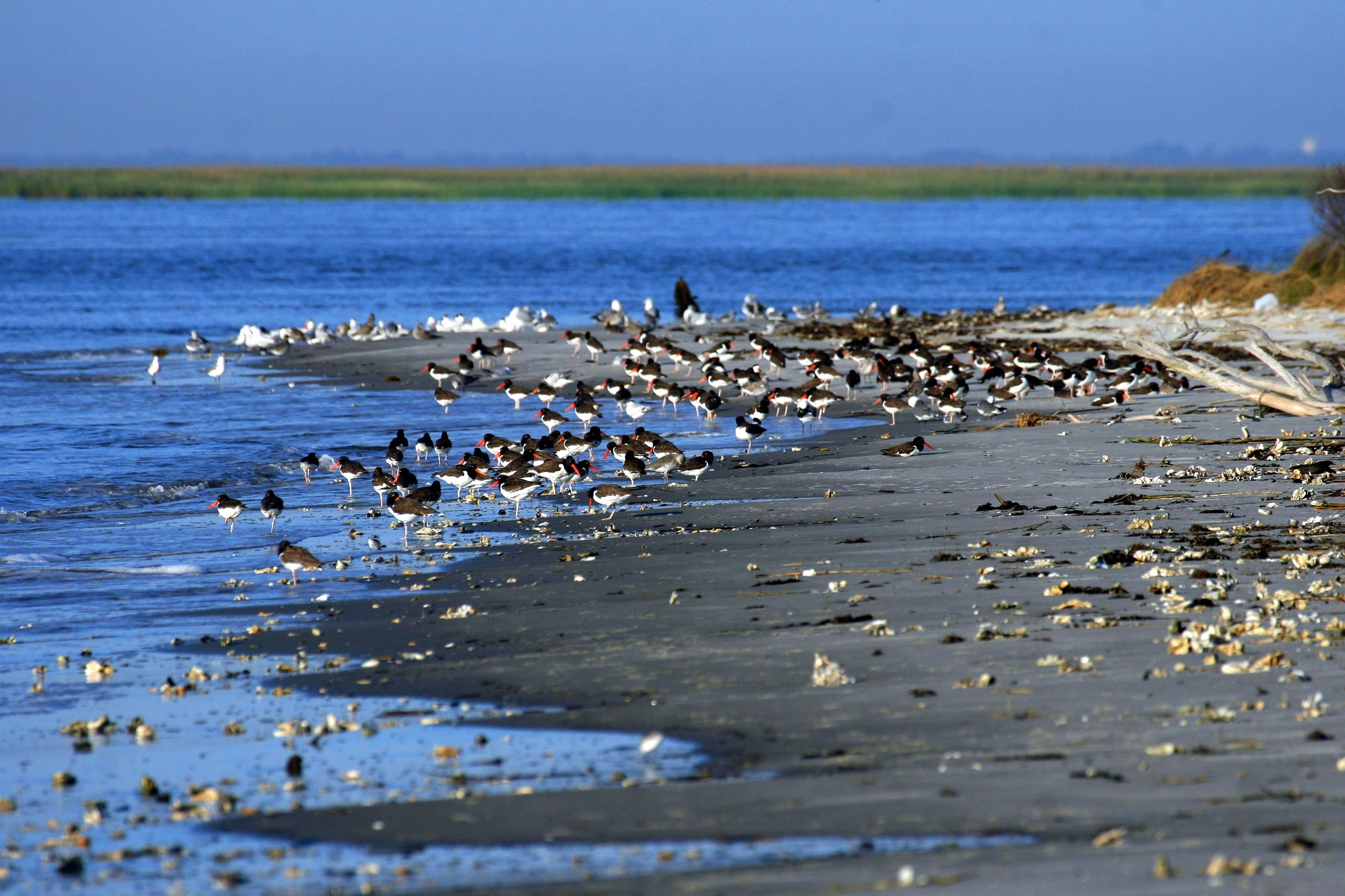 American oystercatchers at Wolf Island National Wildlife Refuge, GA. Credit: Brad Winn-Georgia Department of Natural Resources